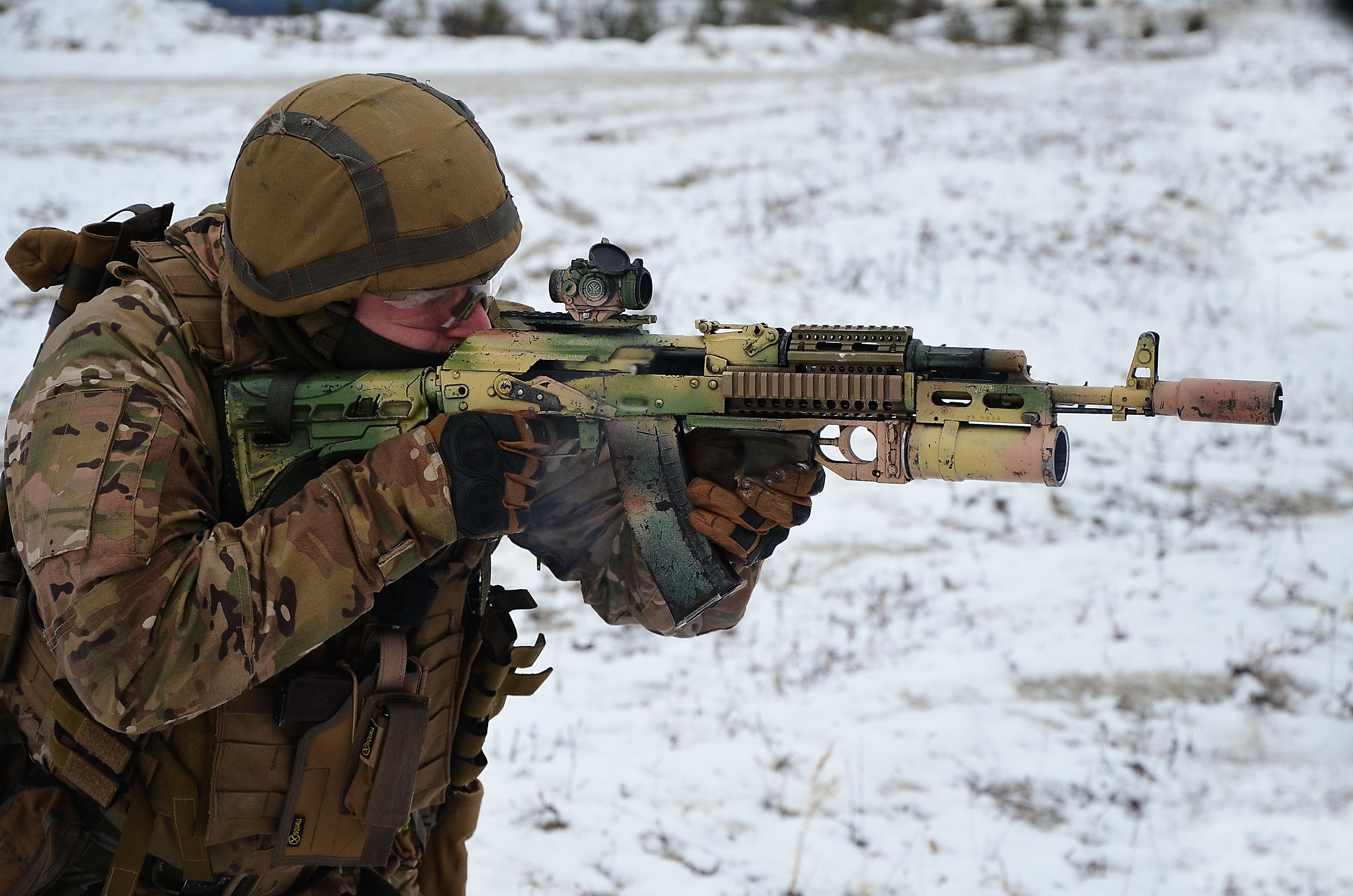 Photo by Andrey Ageev